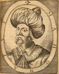 Muslim Prophet Muhammad. It should be noted that these clothes were not known in the Arabic peninsula during that period and thus the image is not correct.